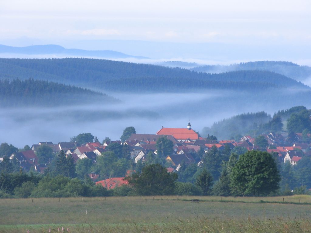 Sankt Andreasberg in the dust